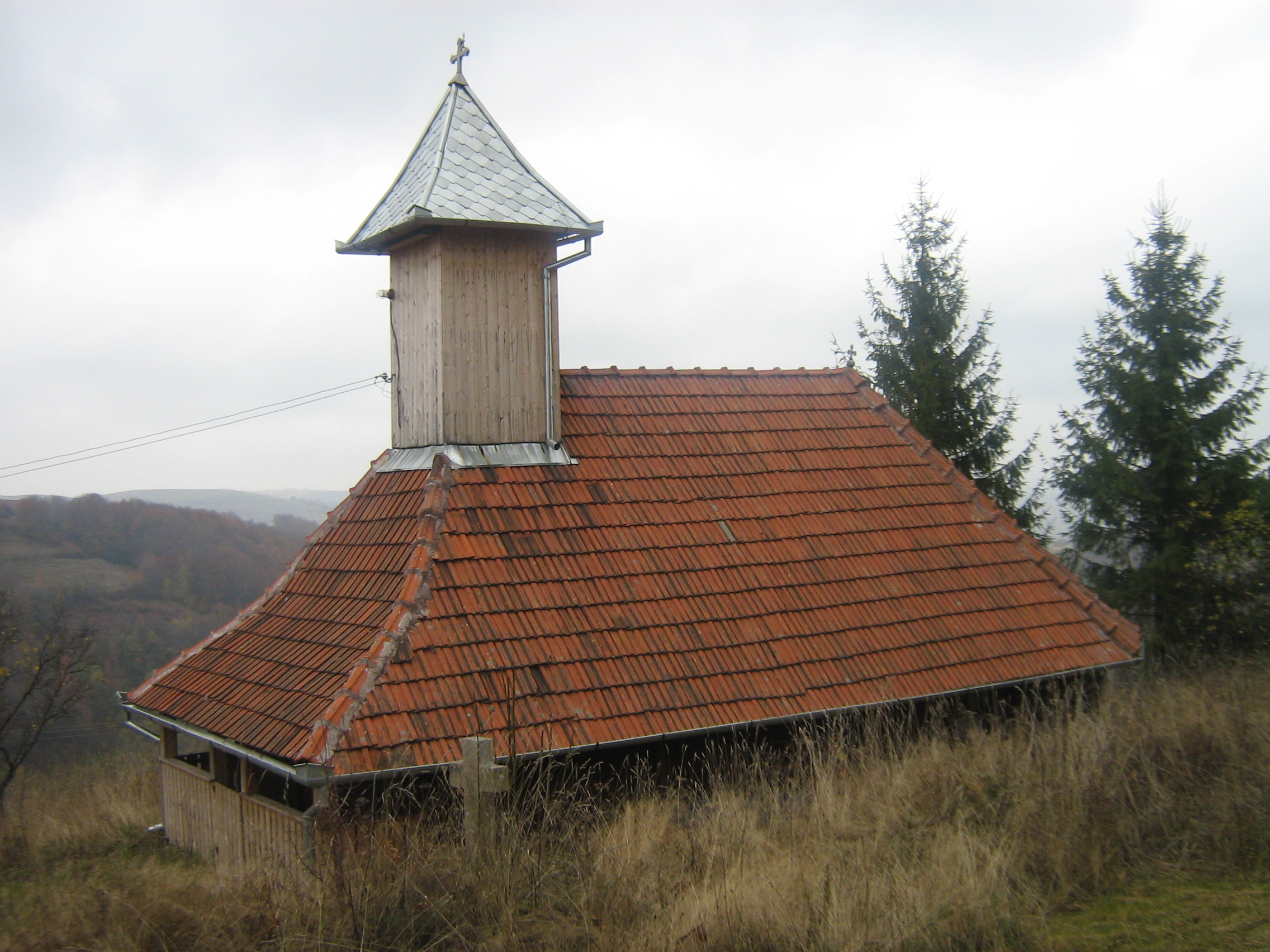 The wooden church in Socet, Hunedoara county, Romania